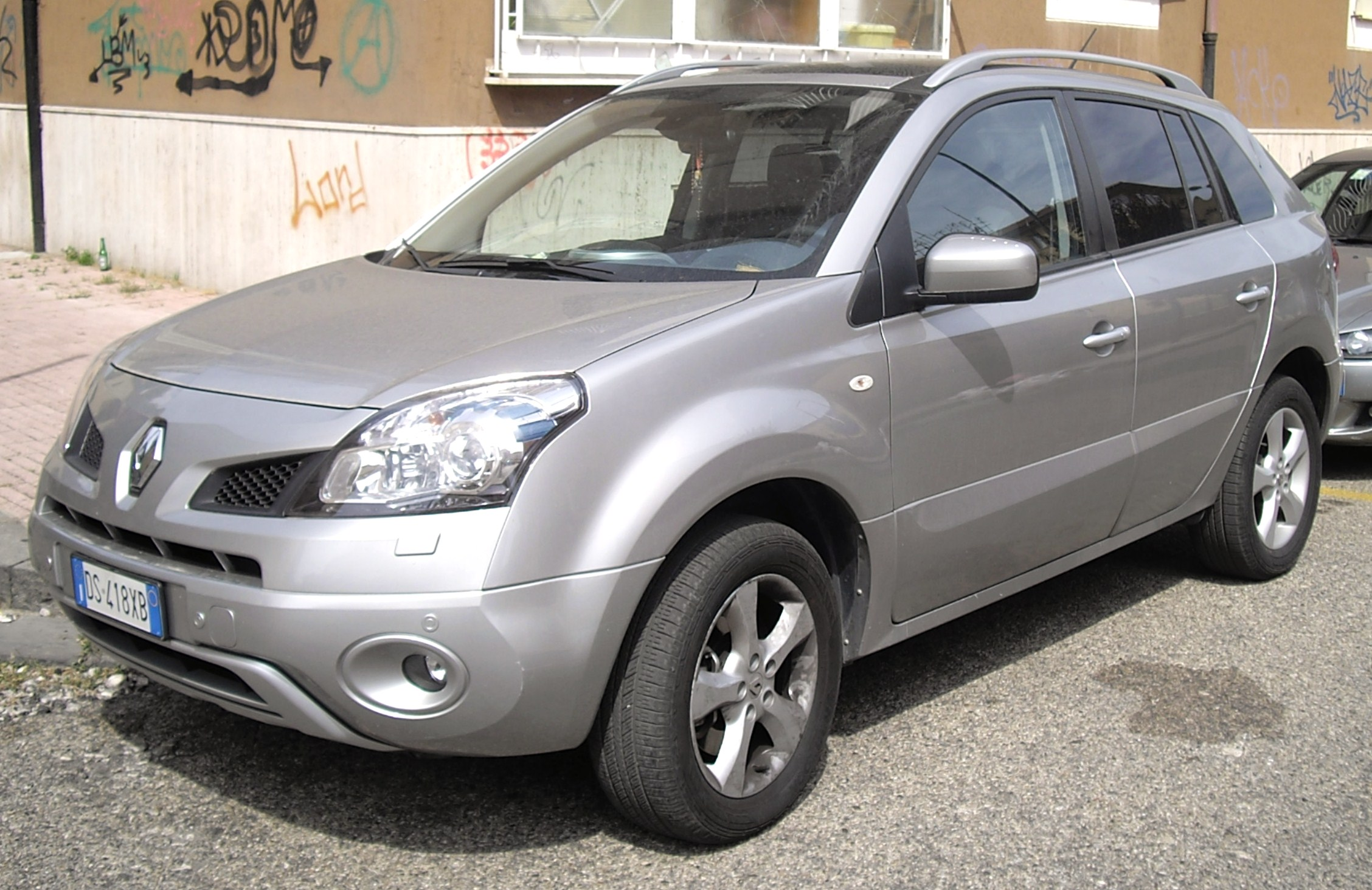 Renault Koleos